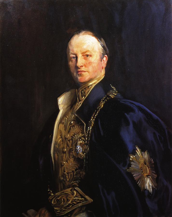 "The Right Honourable Earl Curzon of Kedleston (George Nathaniel Curzon)".